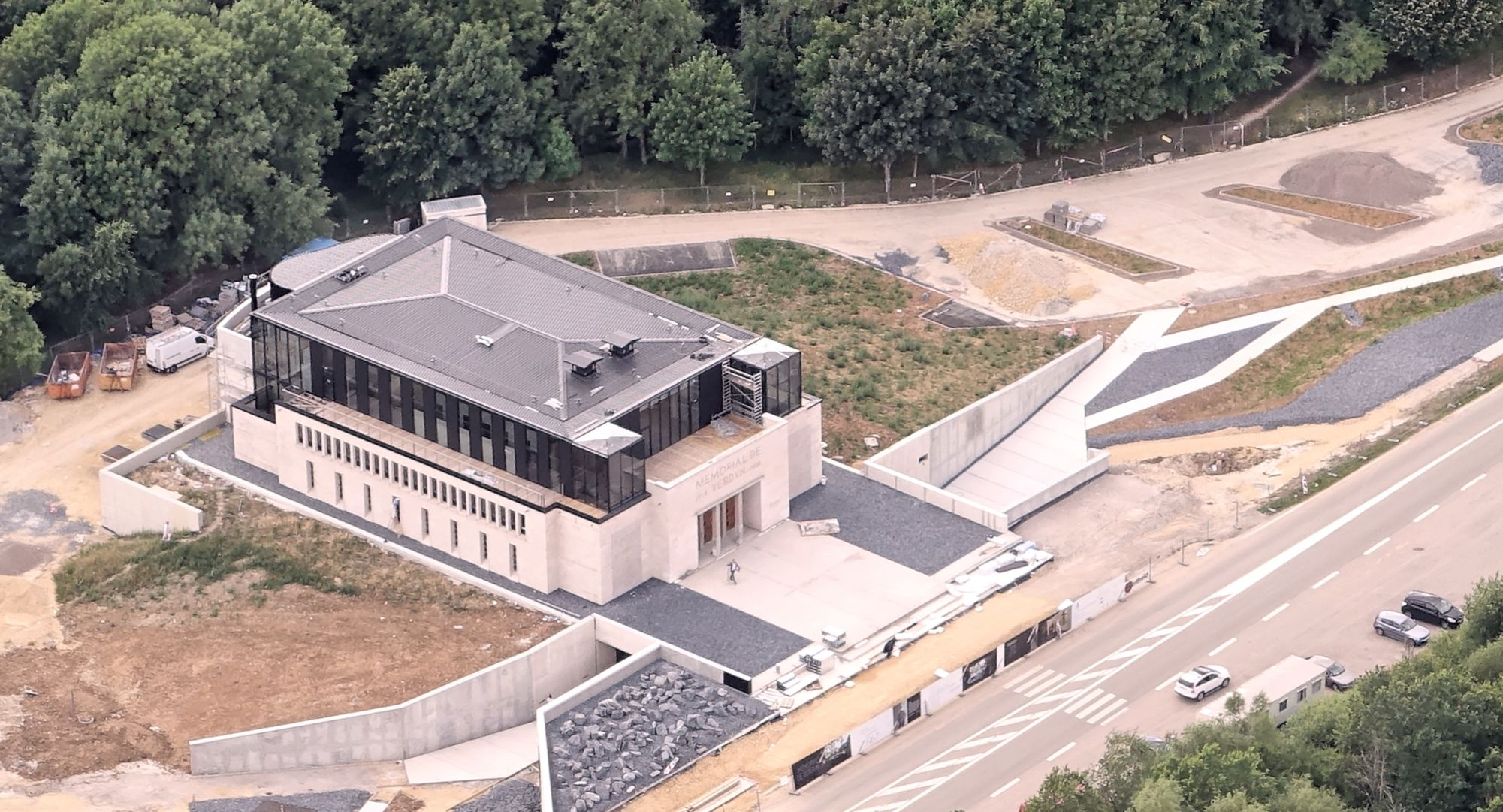 Aerial view Verdun Memorial